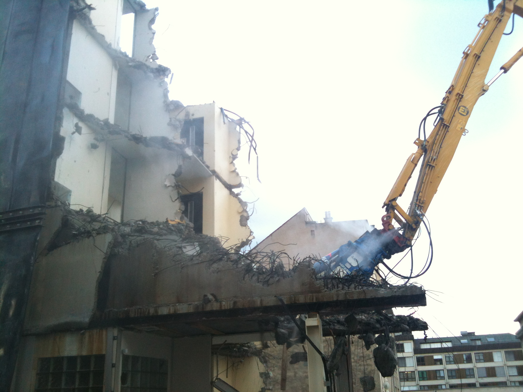 Demolition of a building in Geneva